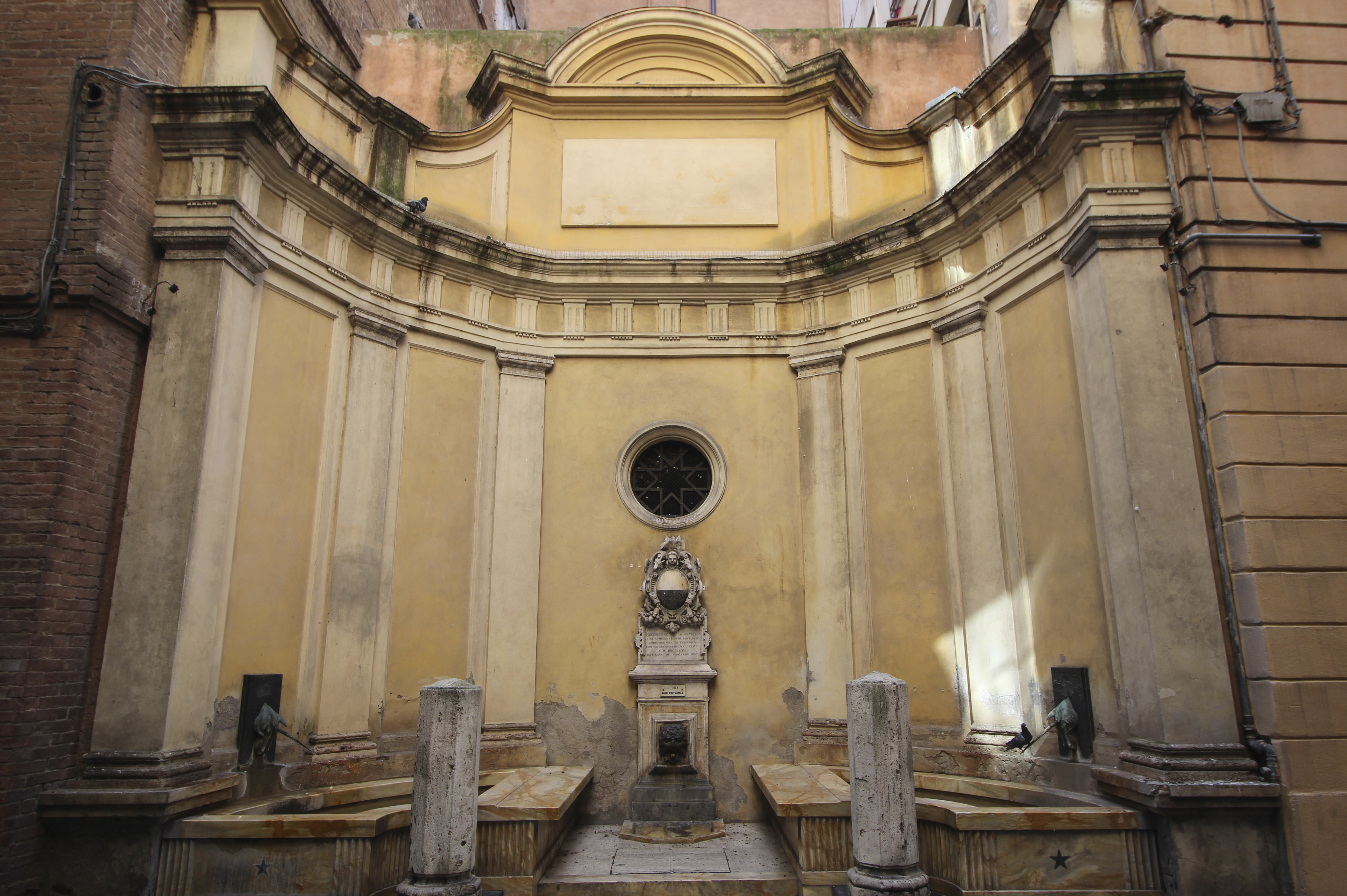 Fountain Fonte di Pantaneto (also Fontana del Leocorno), Via di Pantaneto, Terzo di San Martino, Siena, Province of Siena, Tuscany, Italy